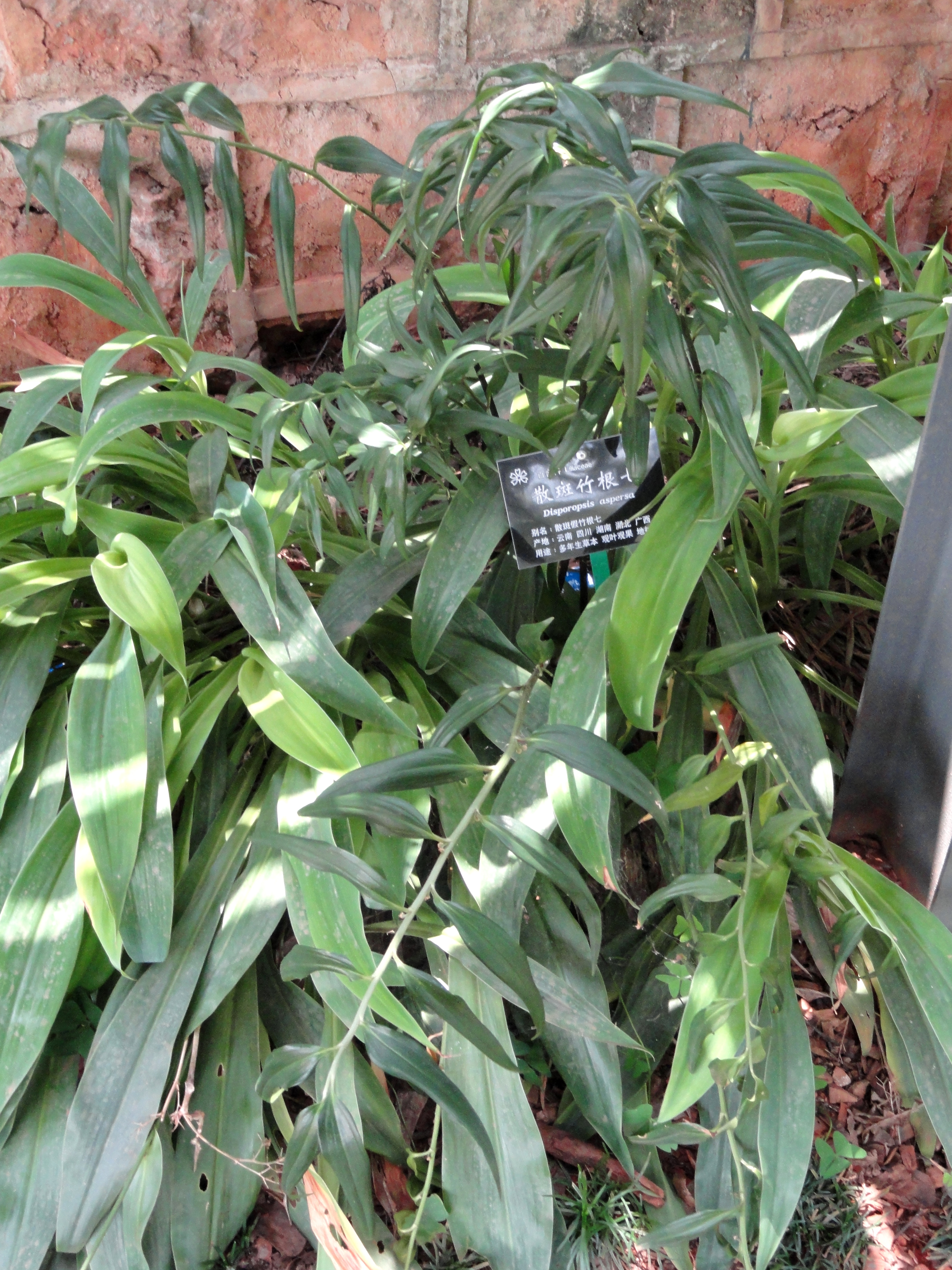 Plant specimen in the Kunming Botanical Garden, Kunming, Yunnan, China.